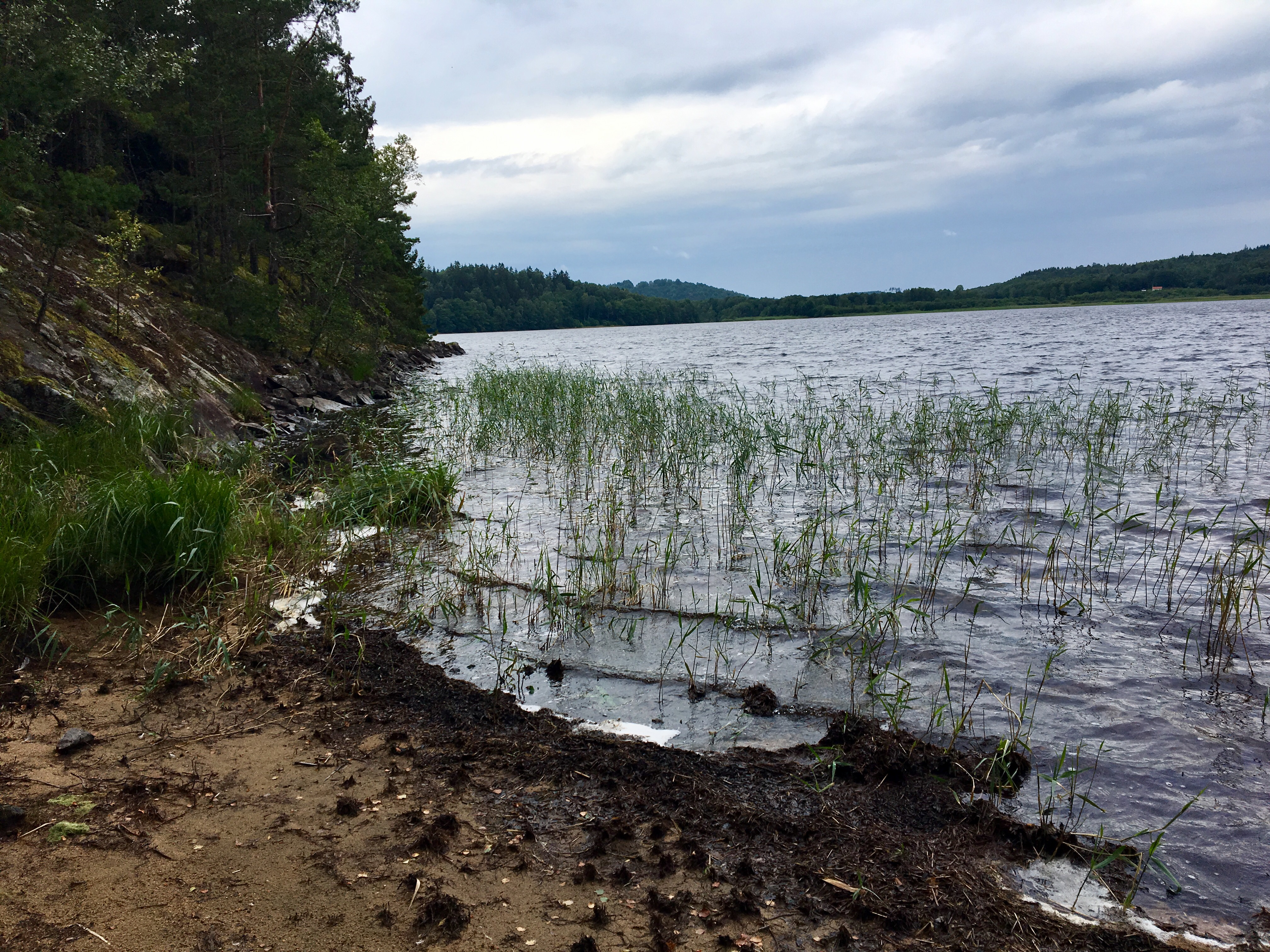 Tolken, lake at Torestorp.